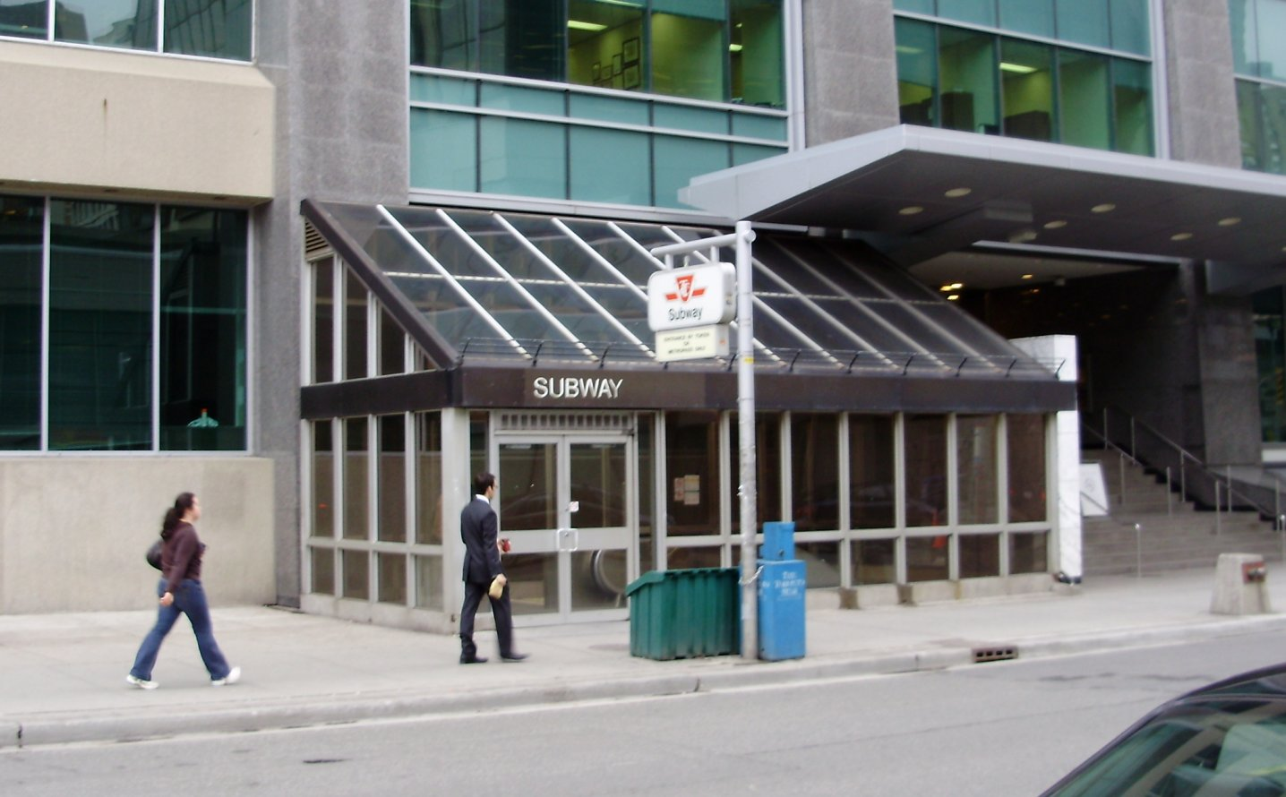 An entrance to Bloor-Yonge Station on Yonge Street, reserved for riders entering with tokens or Metropasses.